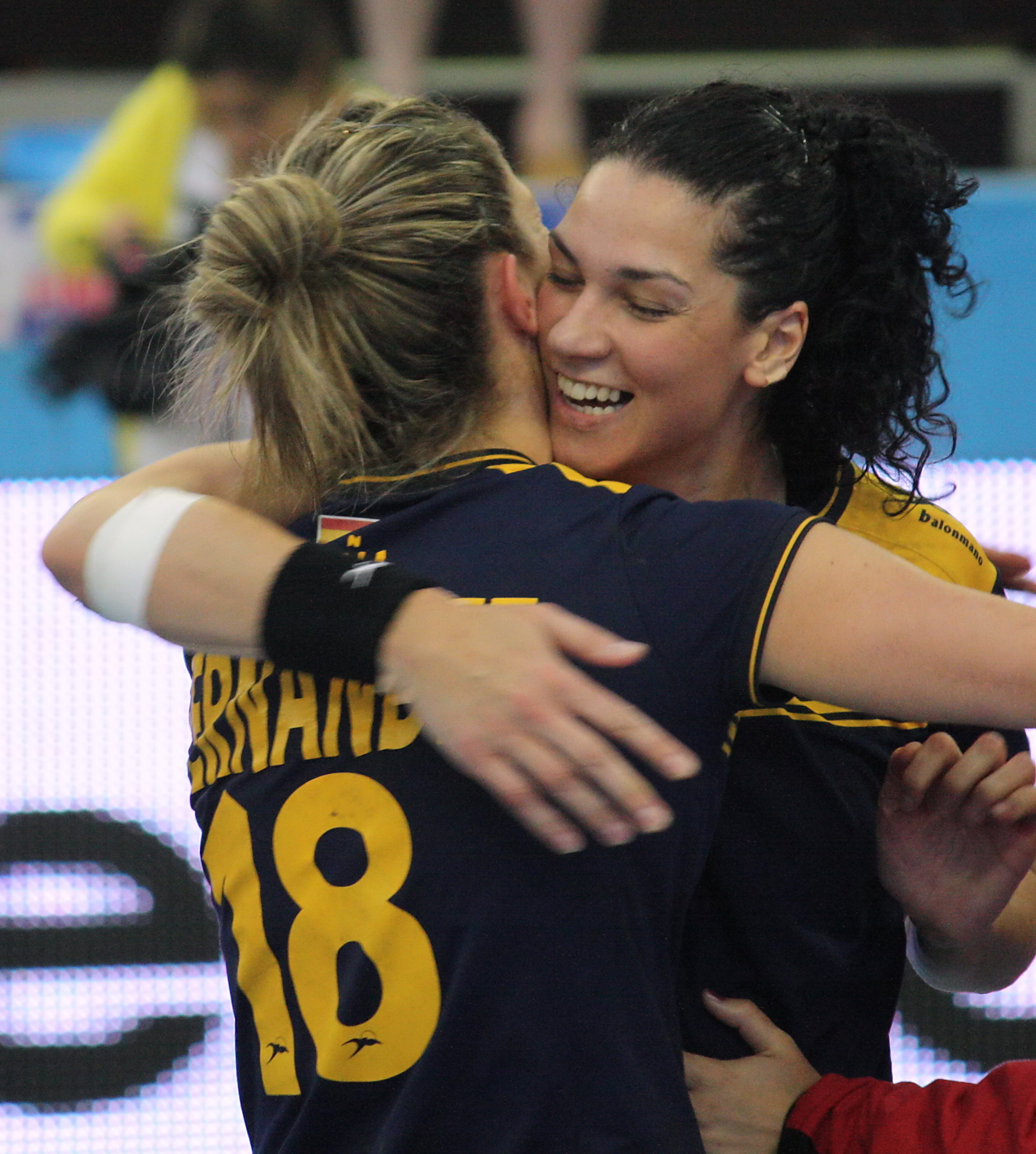 Verónica Cuadrado en el torneo celebrado en España, del 25 al 27 de mayo de 2012, clasificatorio para los Juegos Olímpicos de Londres 2012.